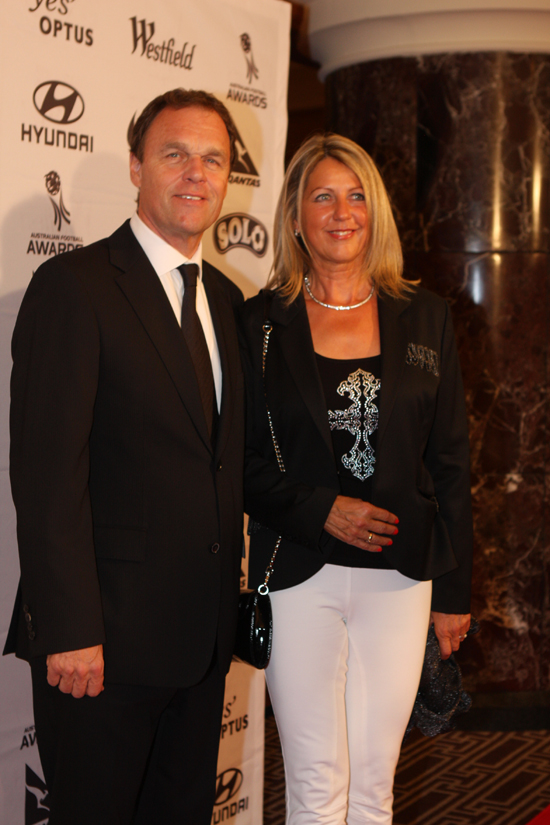 Holger Osieck and Elizabeth Osieck at Australian Football Awards 2011